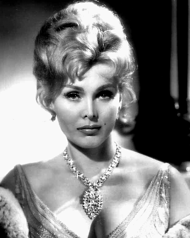 Publicity photo of Zsa Zsa Gabor